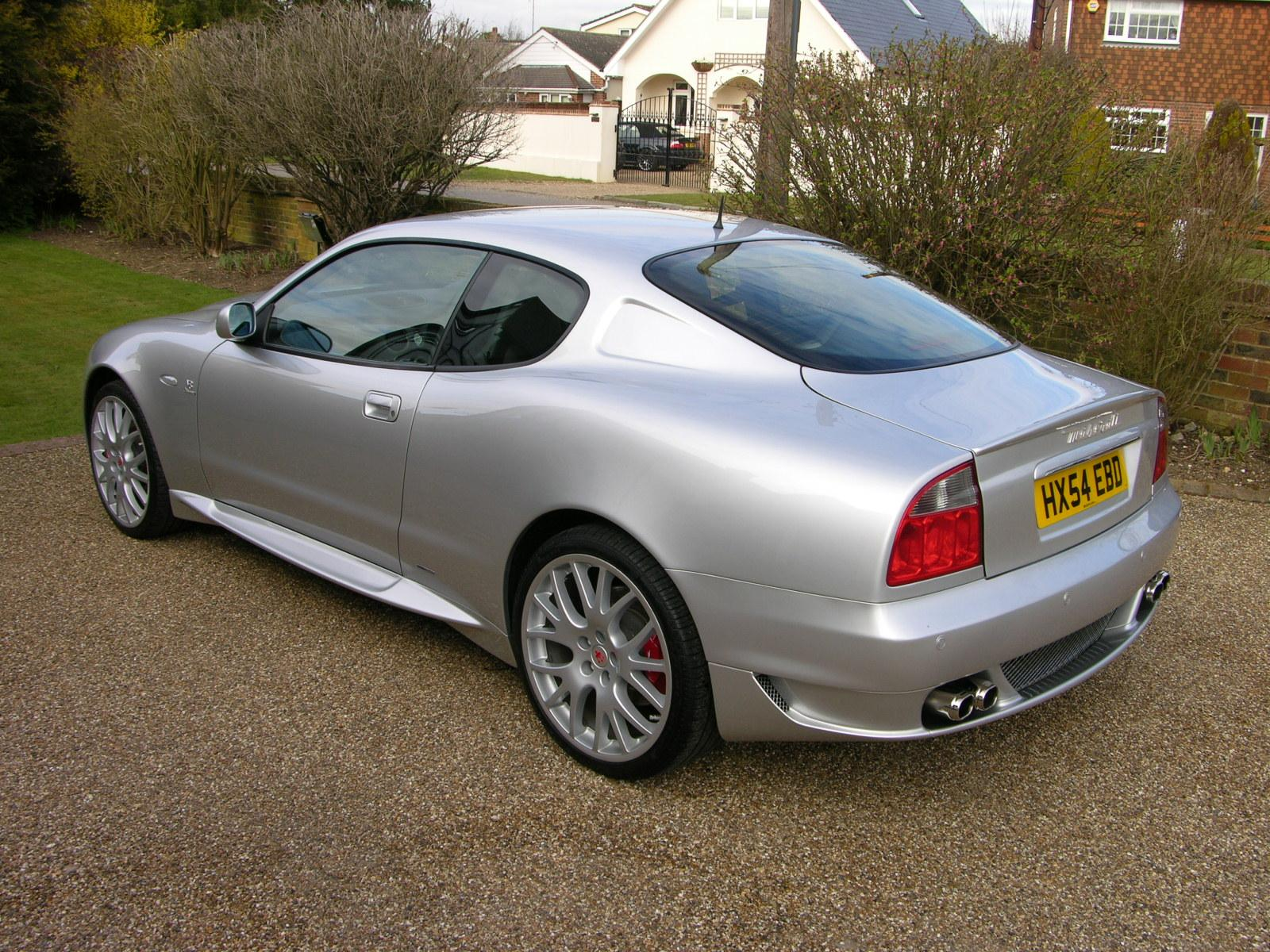 Maserati 4200 Coupe GranSport